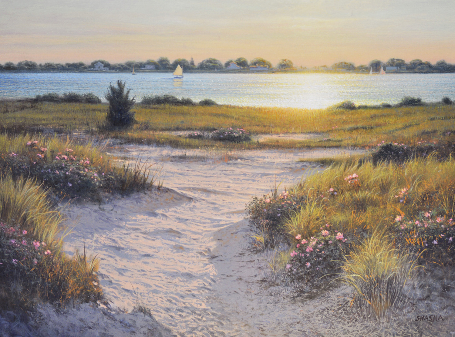 "Summer Dream" by Mark Shasha. A scene of a pond on Martha's Vineyard painted in 2010